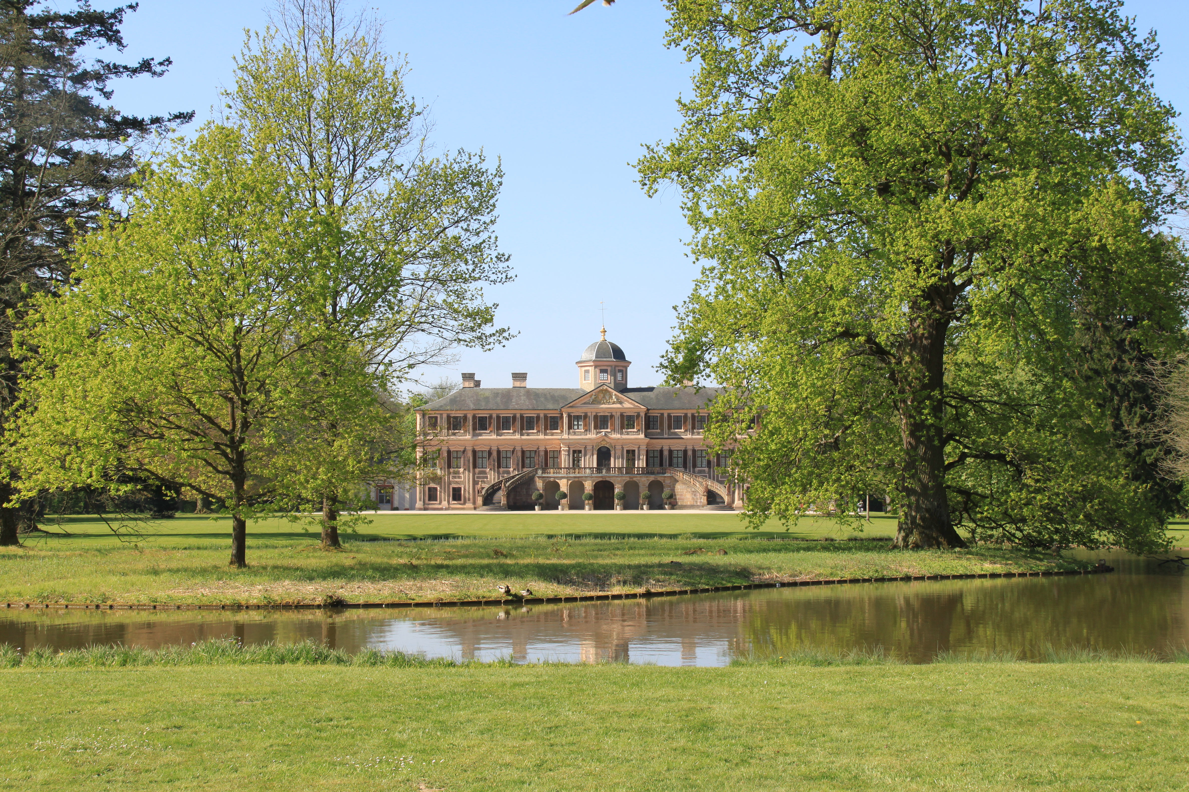 Rastatt, castle Favorite